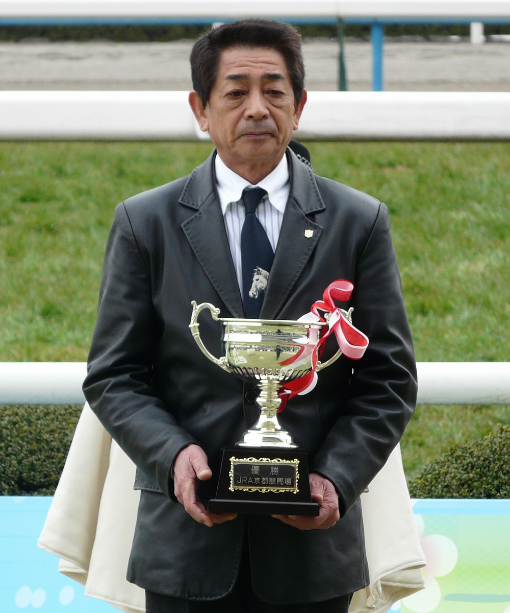 Sadahiro-Kojima20120115